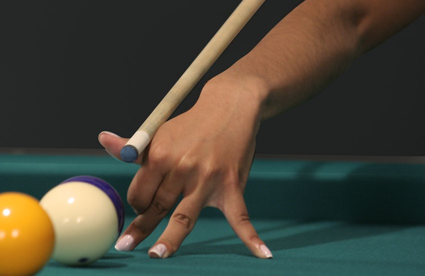 billiard